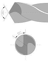 drill sharpening schema